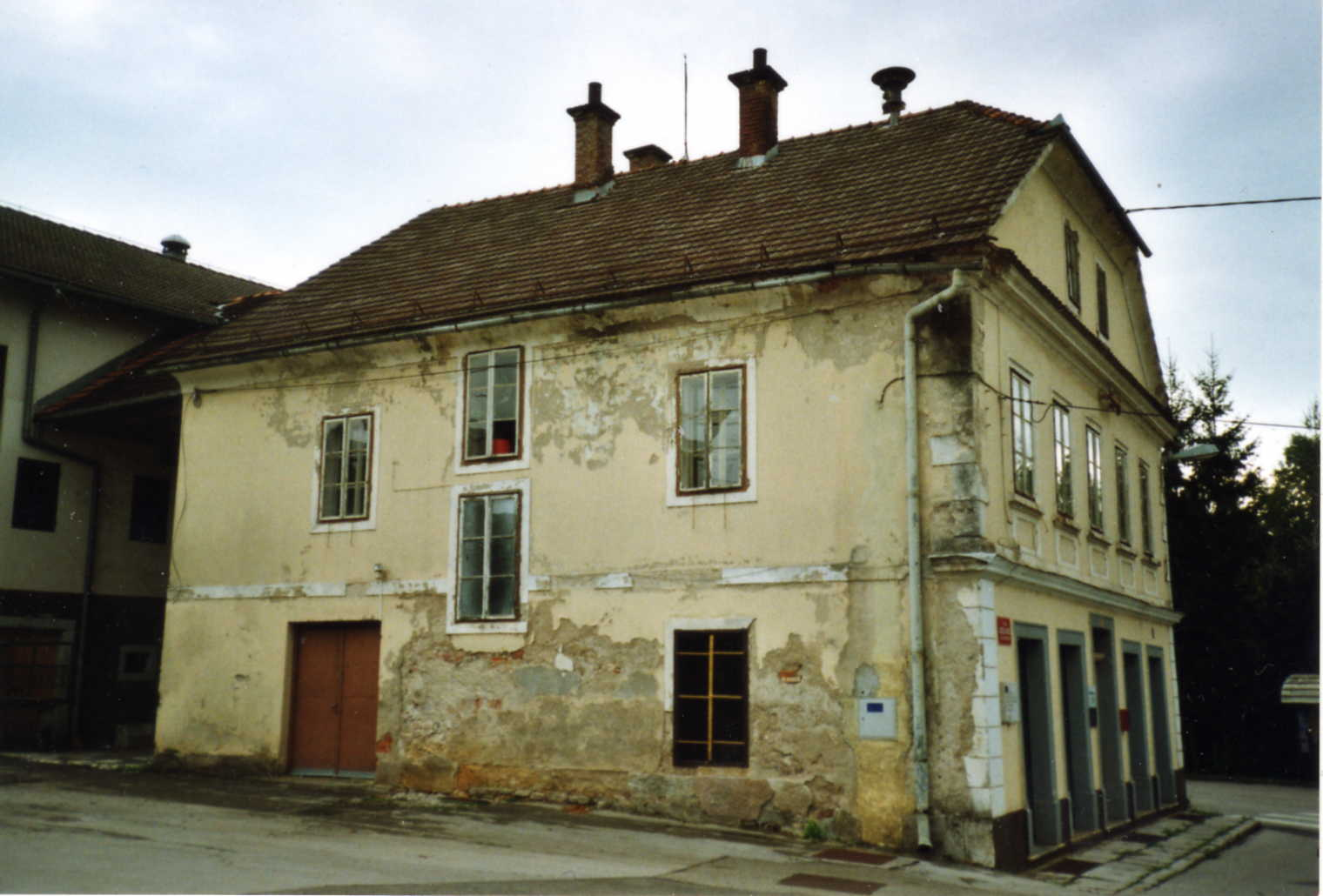 The 19th-century house in the village of Gradac, where the Slovenian Red Cross was established in 1944. Gradac 55.